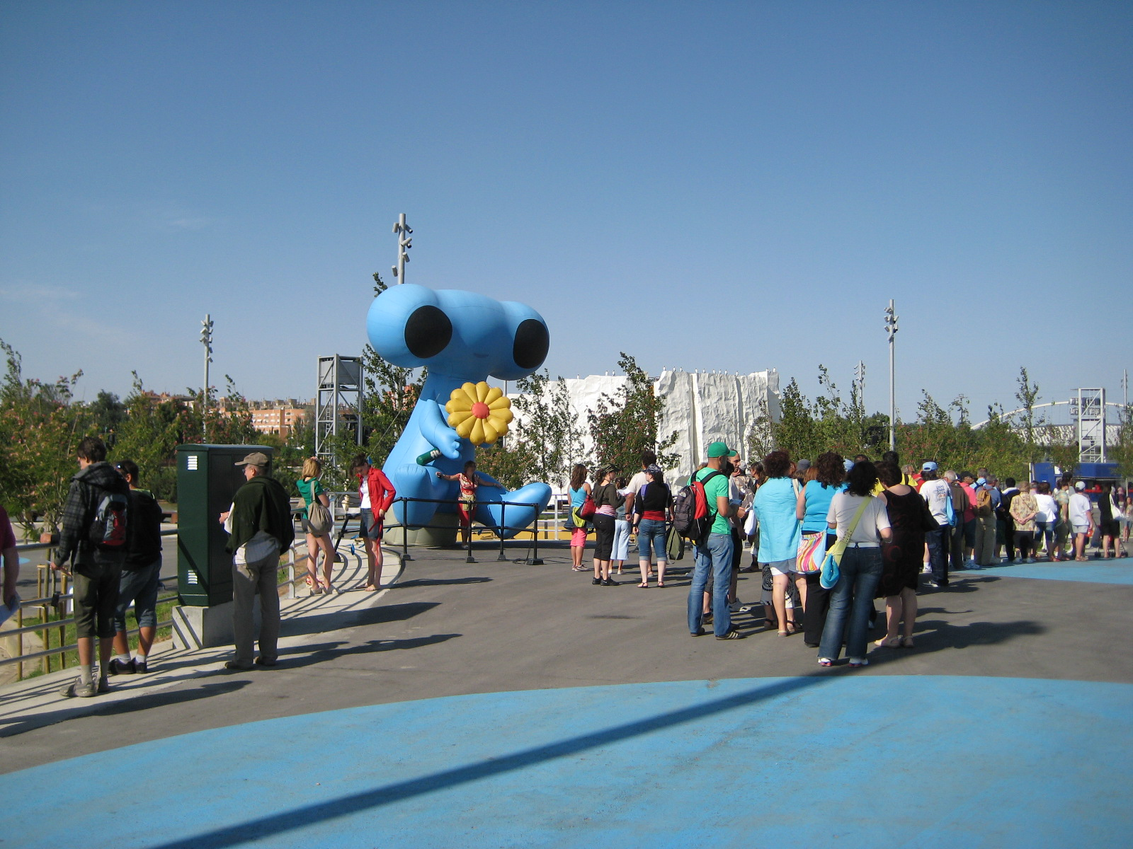 Zaragoza World Expo 2008